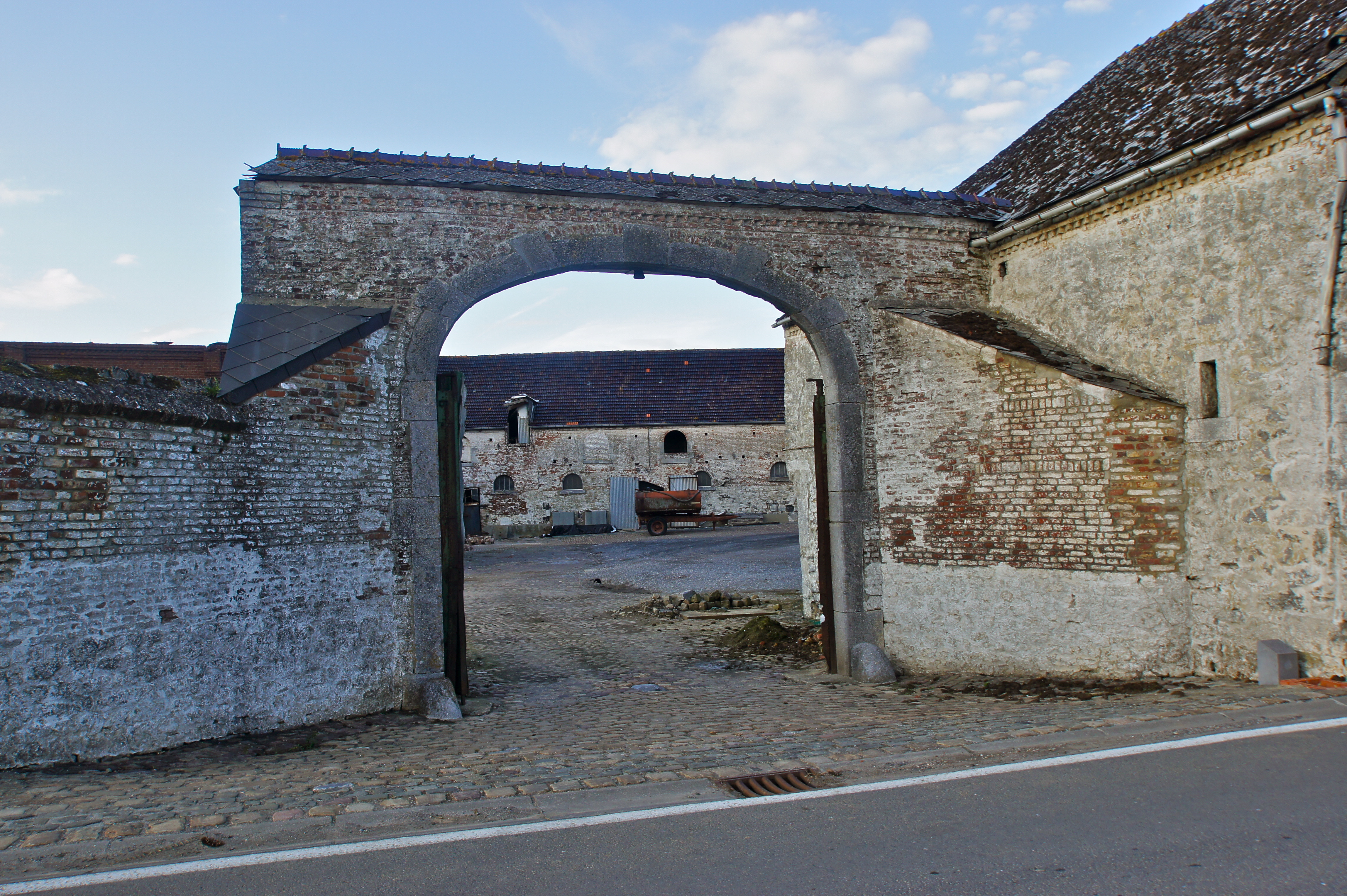 Merbes-le-Château (Fontaine-Valmont), Belgium: Gate of an a farm of the former Aulne Abbey